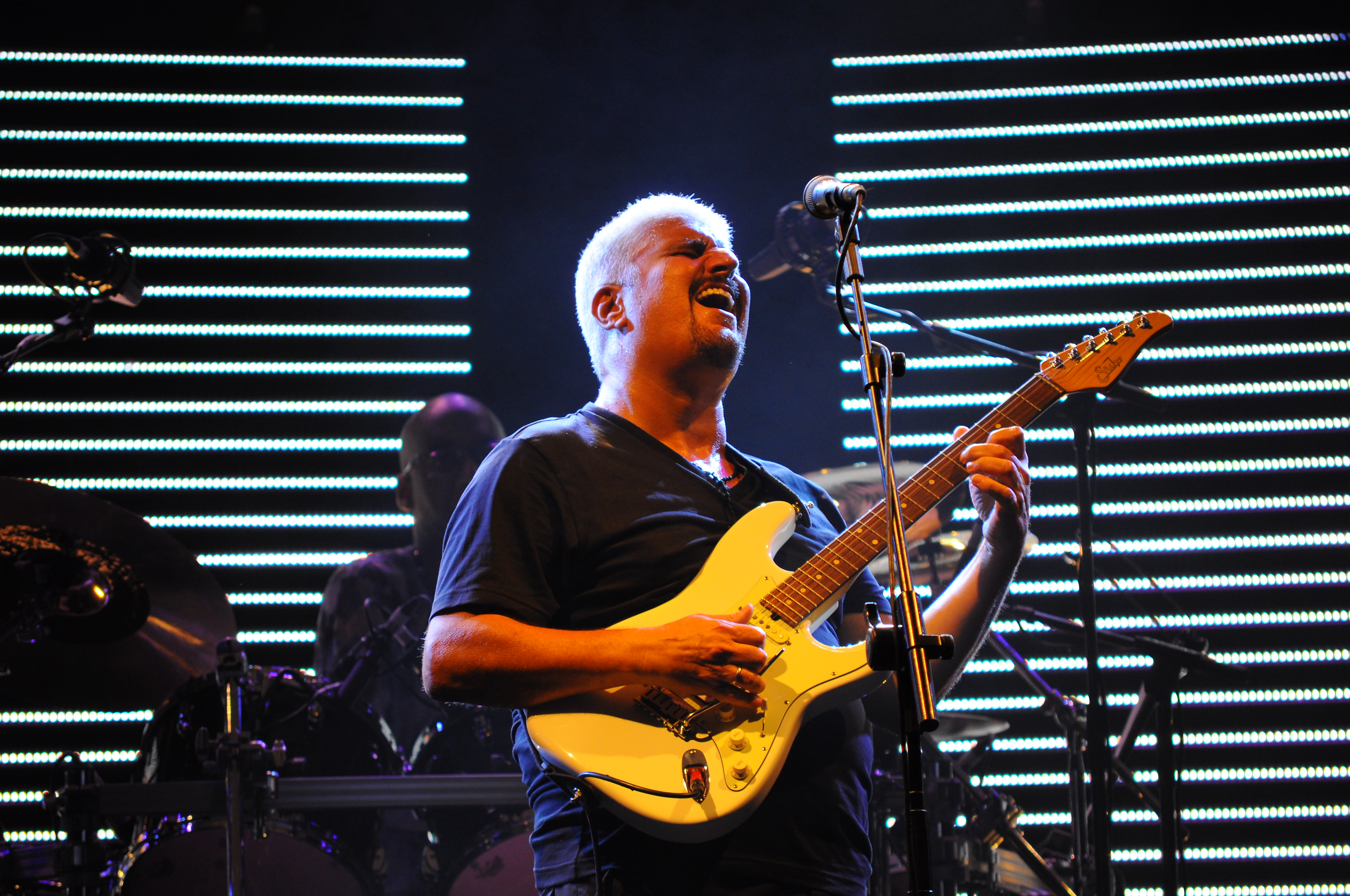 great performance @ Pomigliano Jazz Festival